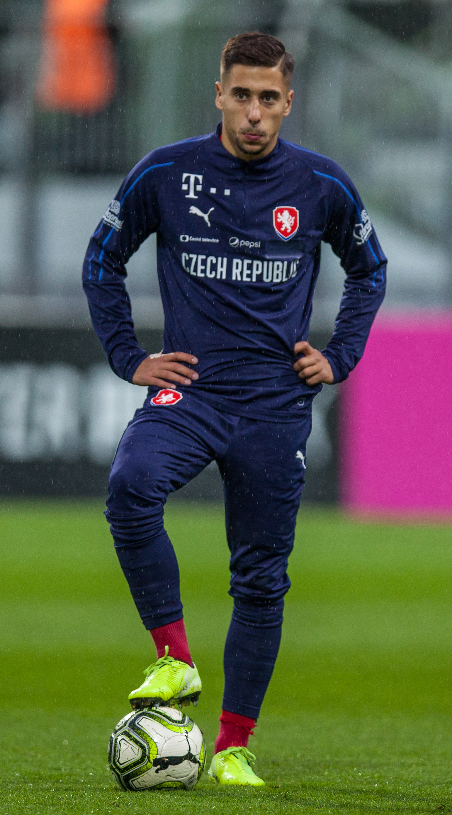 Ondřej Lingr in an internatinoal association football match of European Under-21 Championship Qualifying Round between the Czech Republic and Greece, Městský stadion Karviná, Karviná District, Moravian-Silesian Region, Czechia Personality rights warningAlthough this work is freely licensed or in the public domain, the person(s) shown may have rights that legally restrict certain re-uses unless those depicted consent to such uses. In these cases, a model release or other evidence of consent could protect you from infringement claims.